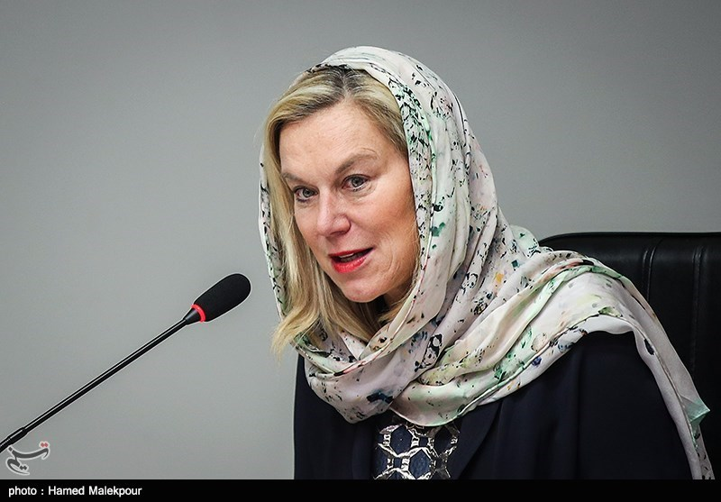 Sigrid Kaag and Ali Akbar Velayati